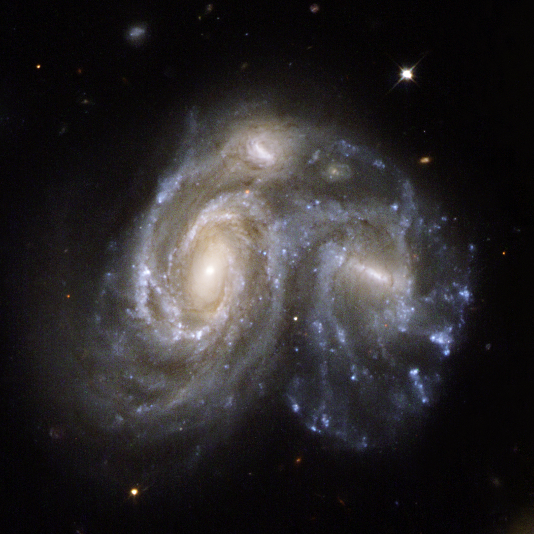 NGC 6050/IC 1179 (Arp 272) is a remarkable collision between two spiral galaxies, NGC 6050 and IC 1179, and is part of the Hercules Galaxy Cluster, located in the constellation of Hercules. The galaxy cluster is part of the Great Wall of clusters and superclusters, the largest known structure in the universe. The two spiral galaxies are linked by their swirling arms. Arp 272 is located some 450 million light-years away from Earth and is the number 272 in Arp's Atlas of Peculiar Galaxies. This image is part of a large collection of 59 images of merging galaxies taken by the Hubble Space Telescope and released on the occasion of its 18th anniversary on 24th April 2008. Left: NGC 6050A Right: NGC 6050B About the objectObject nameNGC 6050, IC 1179, Arp 272Object descriptionInteracting GalaxiesPosition (J2000)16 05 22.97 +17 45 27.2ConstellationHerculesDistance150 million light-years (50 million parsecs)About the dataData descriptionThe Hubble image was created using HST data from proposal 11095: K. Noll (STScI)InstrumentWFPC2Exposure date(s)February 12 - 14, 2007Exposure time5 hoursFiltersF435W (B) and F814W (I)